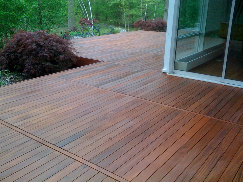 IPE Deck Stain